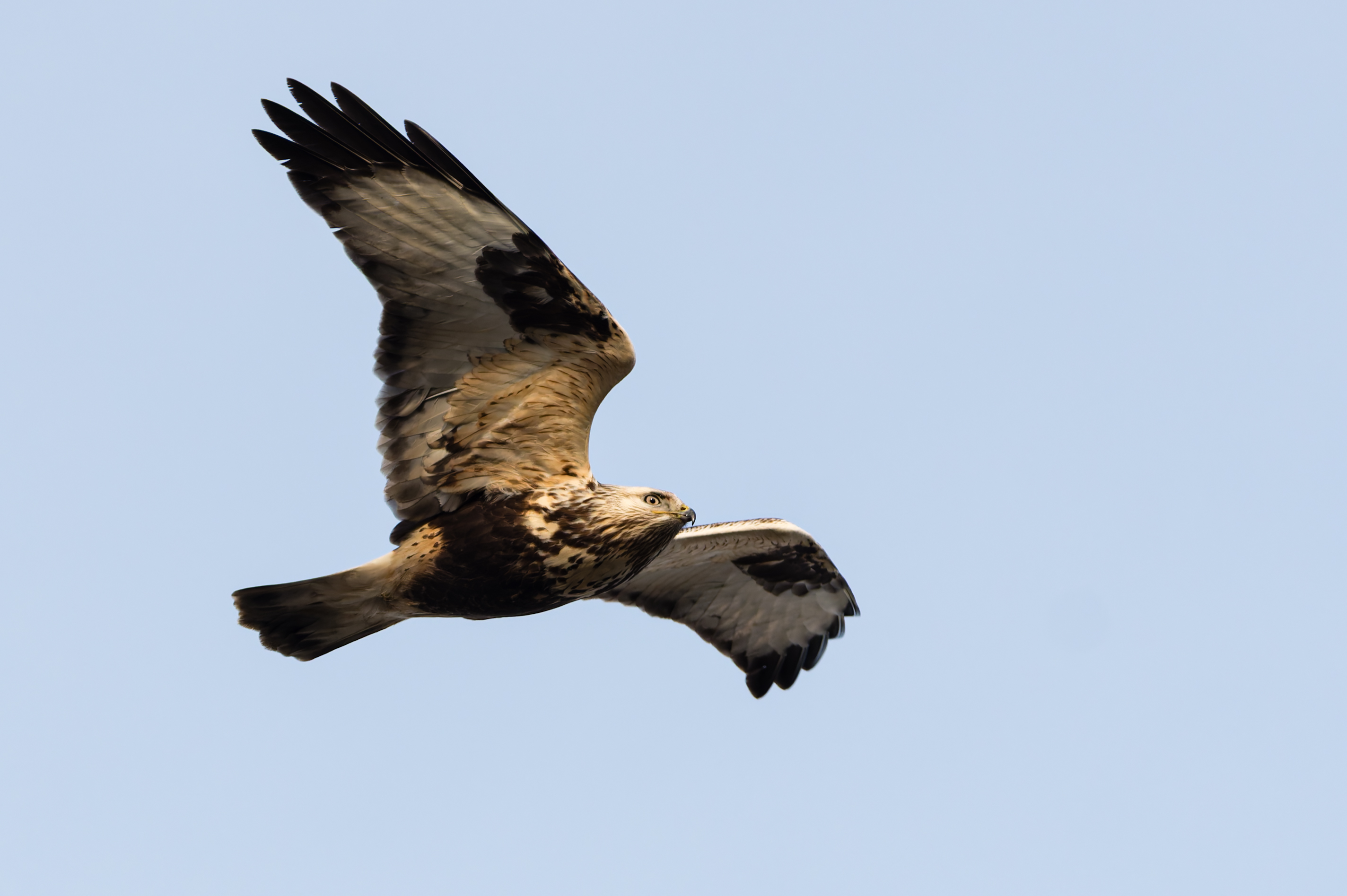 Rough-legged Buzzard, juvenile, Island of Spiekeroog, Germany